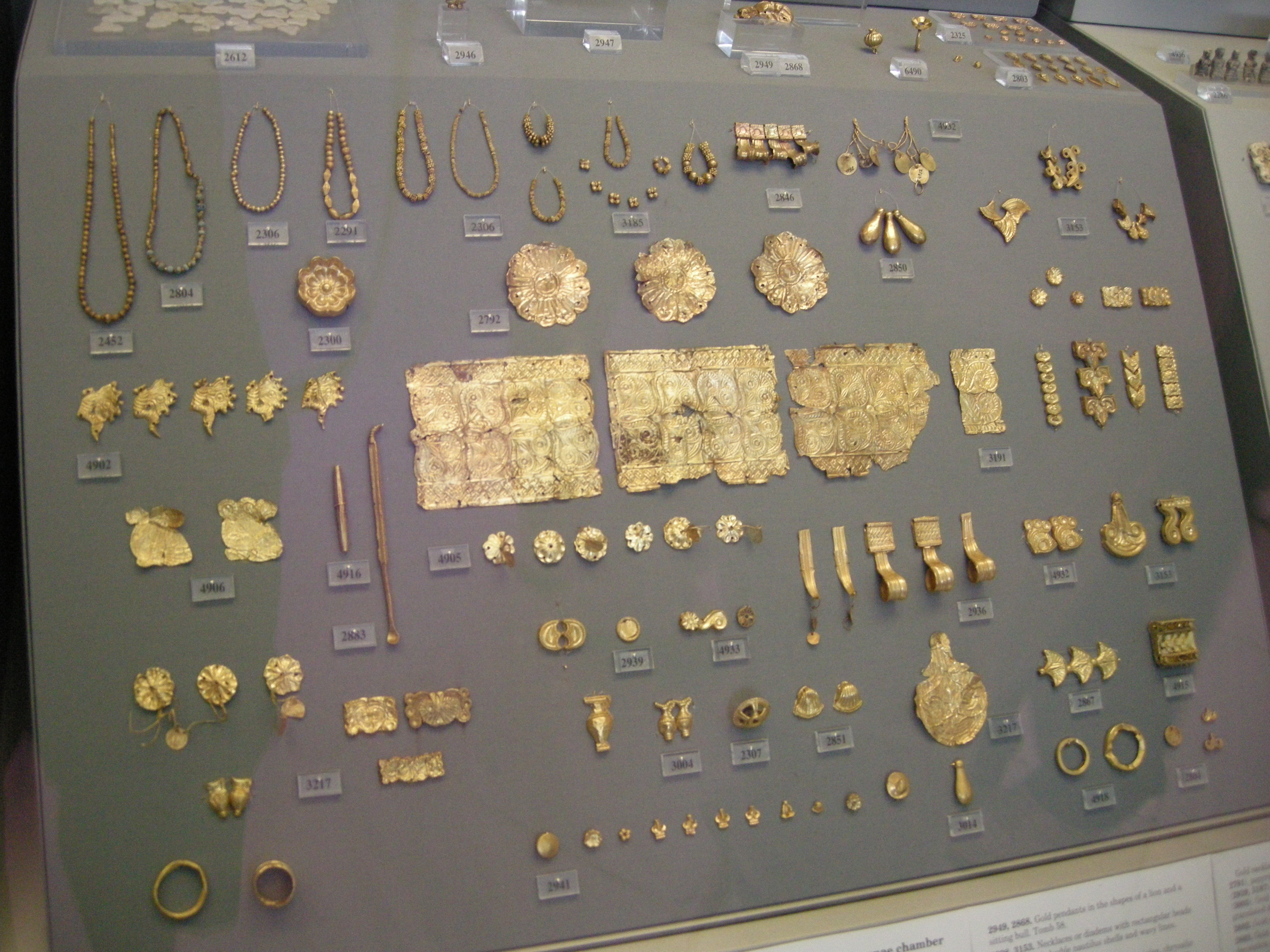 Gold in NAMA